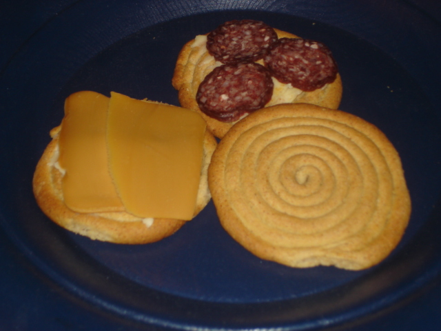 Traditional Norwegian cookies called rengakaka; one dry, one with gjetost and one with sausage.